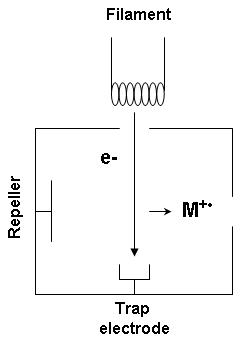 Diagram representing an electron ionization ion source